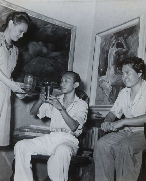 The painters Mochtar Apin and Henk Ngantung